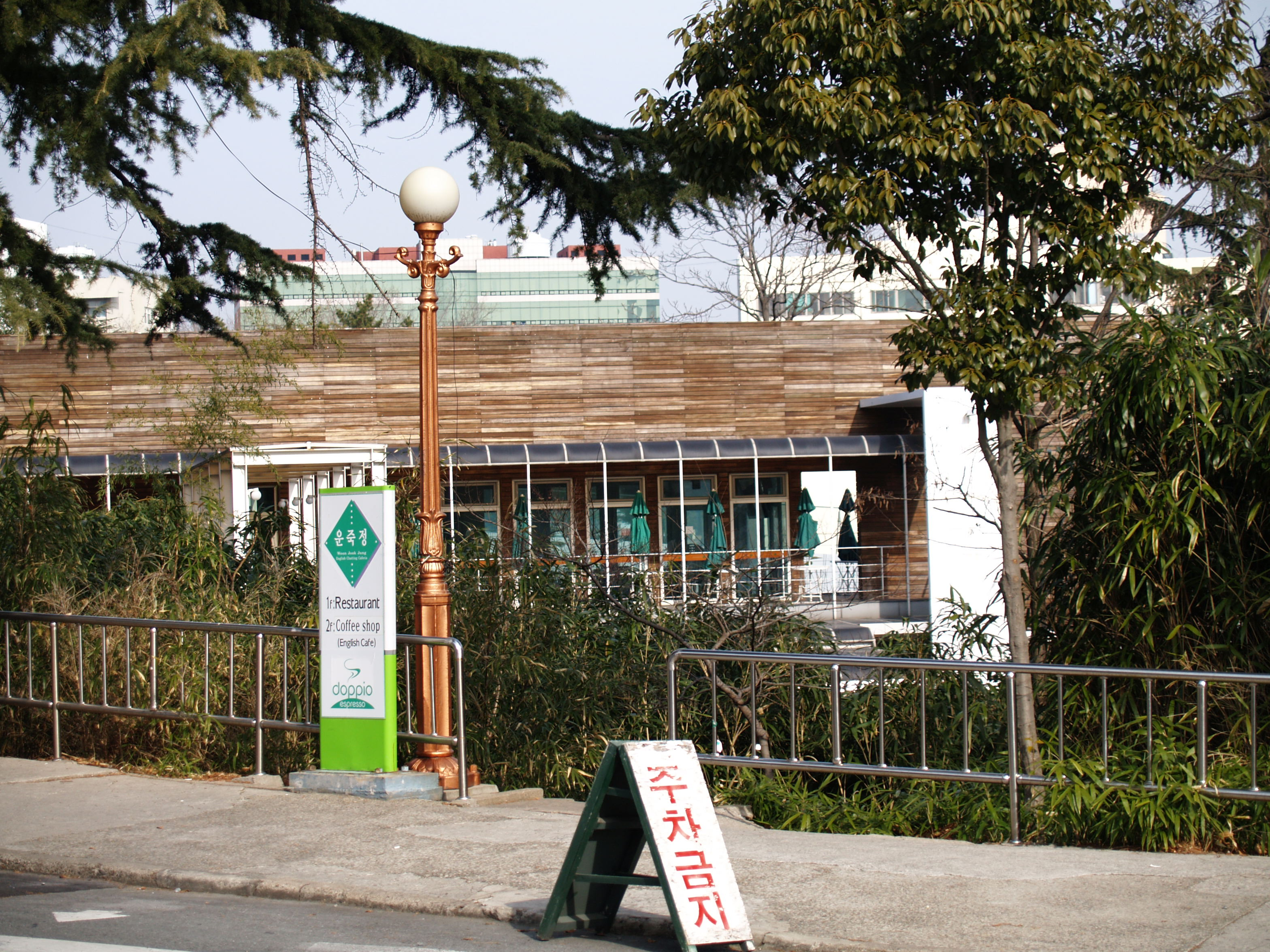 The Office Of International Services named 운죽정(Woon Jook Jeong). Located in Pusan National University